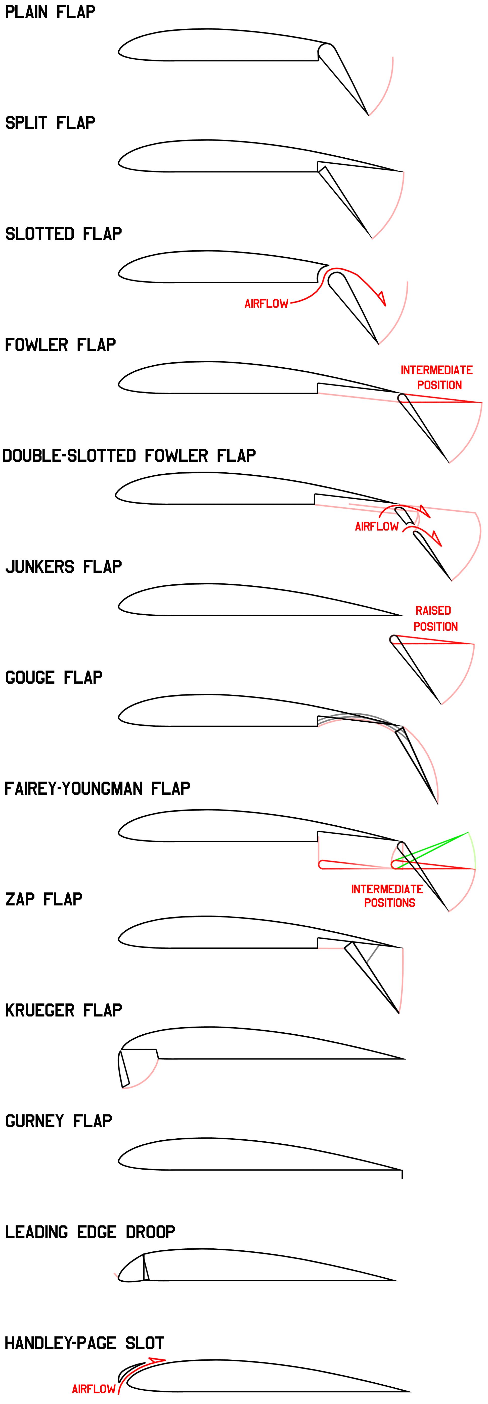 Airfoil lift improvement devices (flaps)